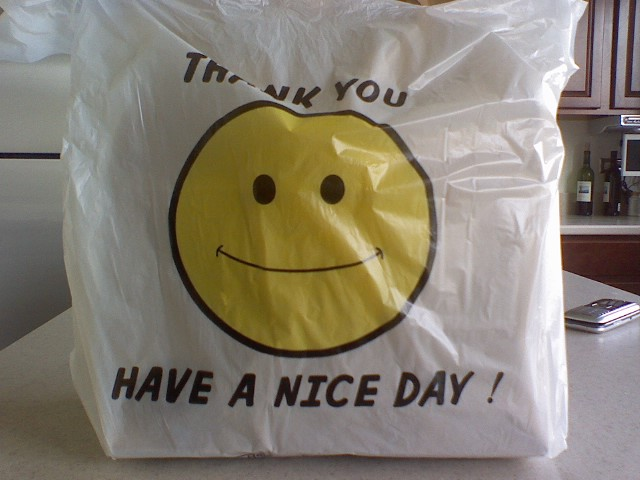 A bag with a smiley face design that bids the viewer "Thank you" and "Have a nice day!"